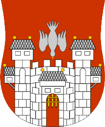 COA-Maribor